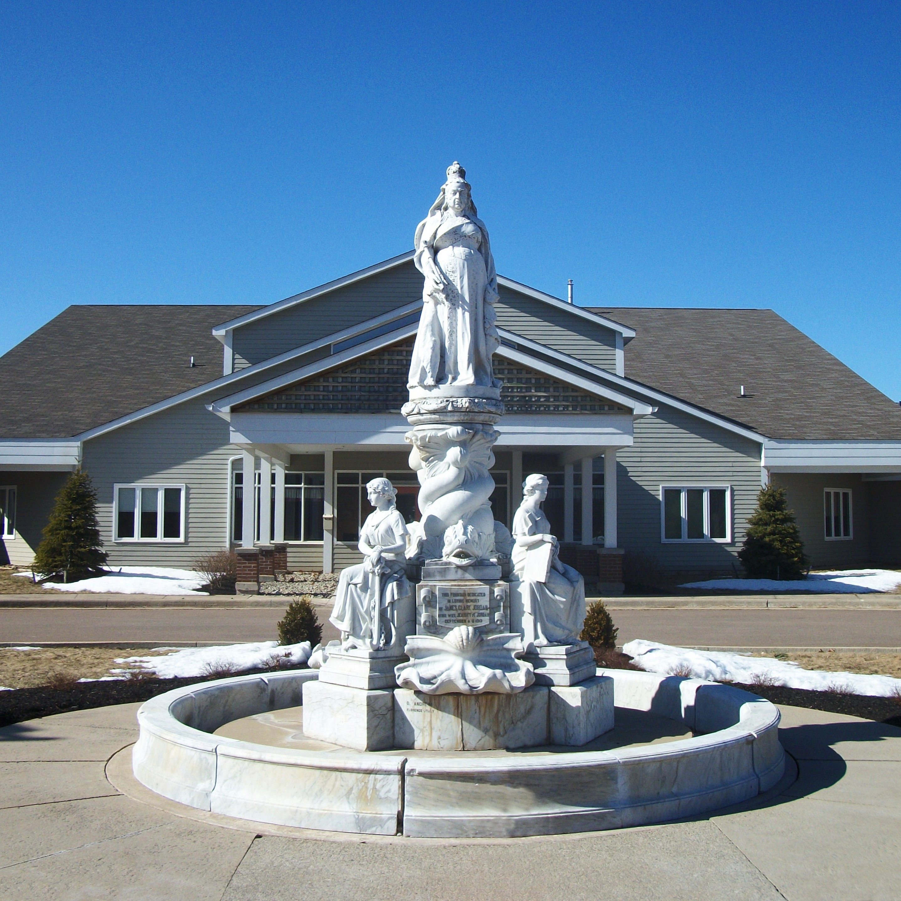 Statue of Queen Victoria at Jordan LifeCare, the Glades, Westmorland county, New Brunswick. Sculpted in marble by the Florentine artisan O. Andreini, it was erected in 1913 by the founder Jeanette Jordan in memory of her late husband.